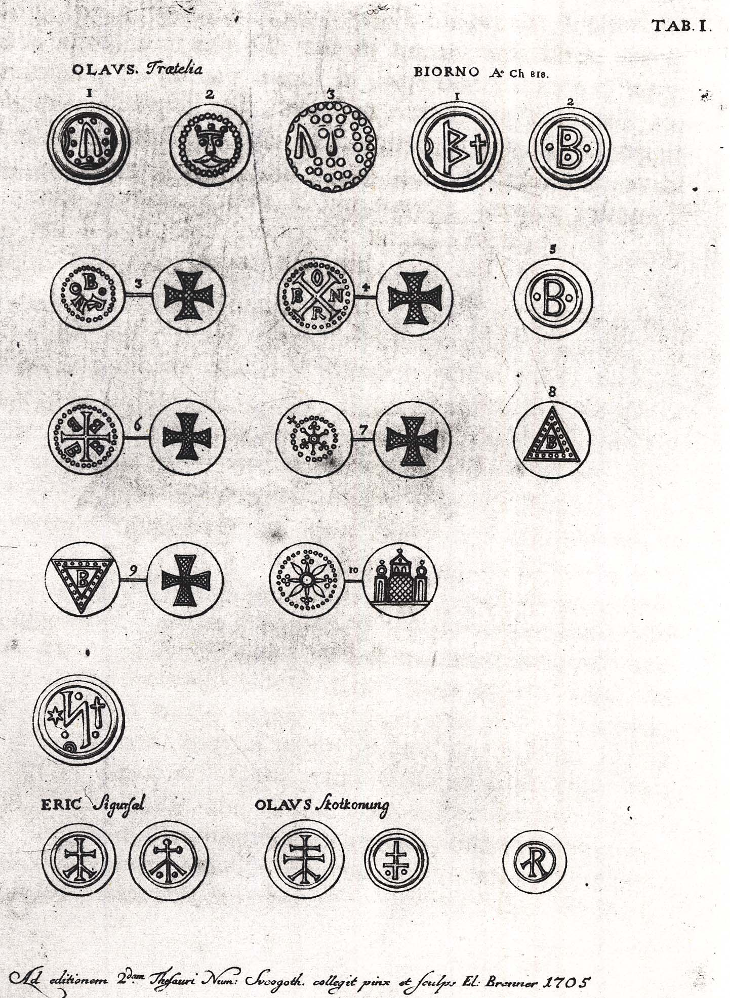 Coins of Swedish kingsPlace: Sweden